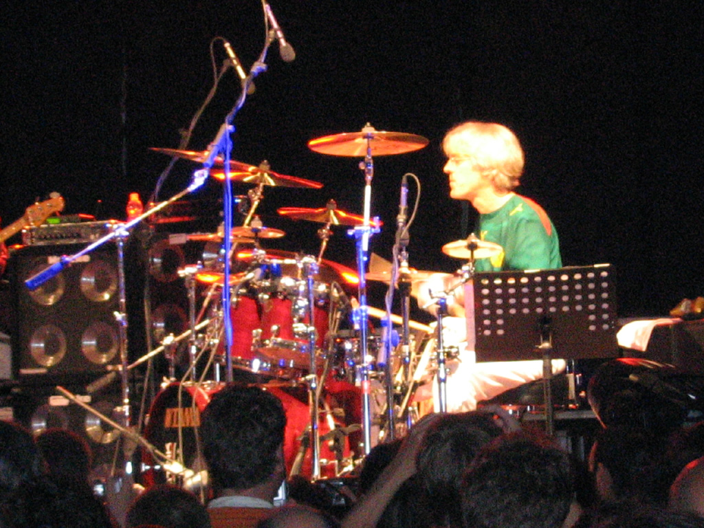 Stewart Copeland & Gizmo a Longiano